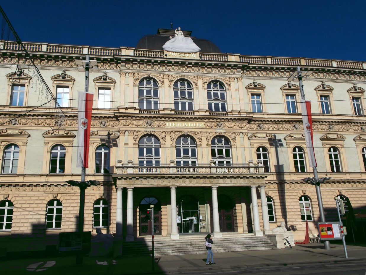 Innsbruck, Museum of Country Tyrol: "Tiroler Landesmuseum"